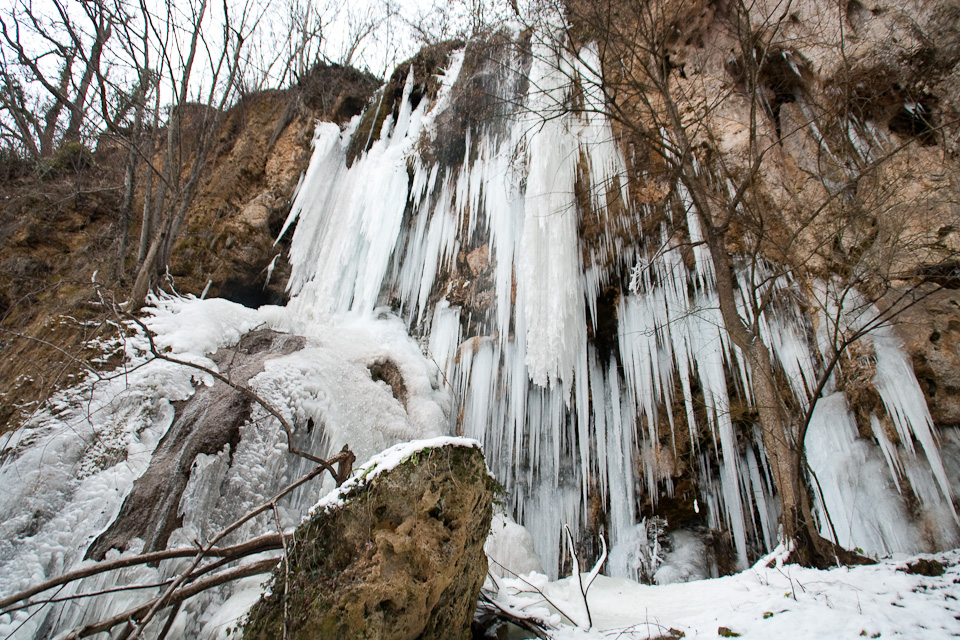 Vranjak Waterfall, in Slapnica Valley, Croatia, in the wintertime.